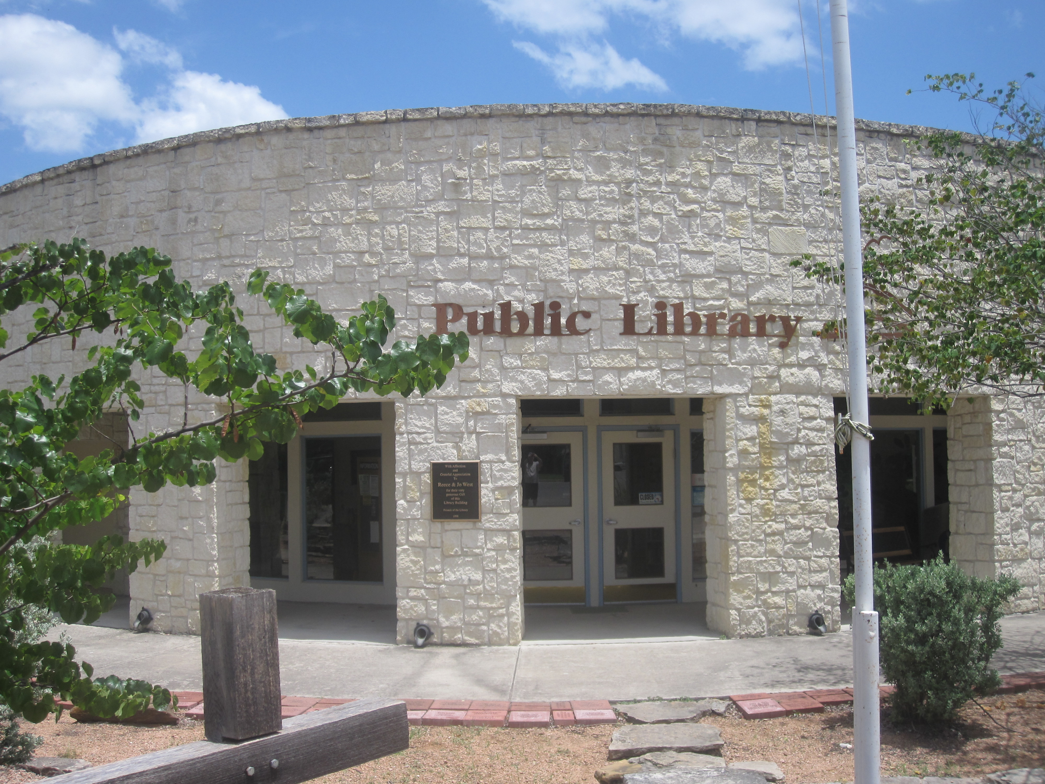 Leakey Public Library, Leakey, Texas